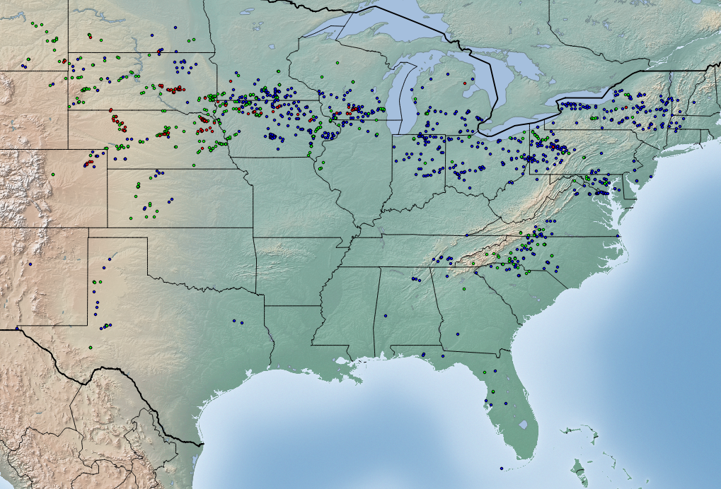 All tornado, hail, and wind reports received by the Storm Prediction Center from June 16 to June 18. Red dots are tornado reports, green are hail reports, and blue are wind reports. Many of these reports were associated with a severe storm system that tracked across the Northern United States during this time frame. Image was created using QGIS, with labels released under CC-PD by Natural Earth. Data for plots is available at [1].